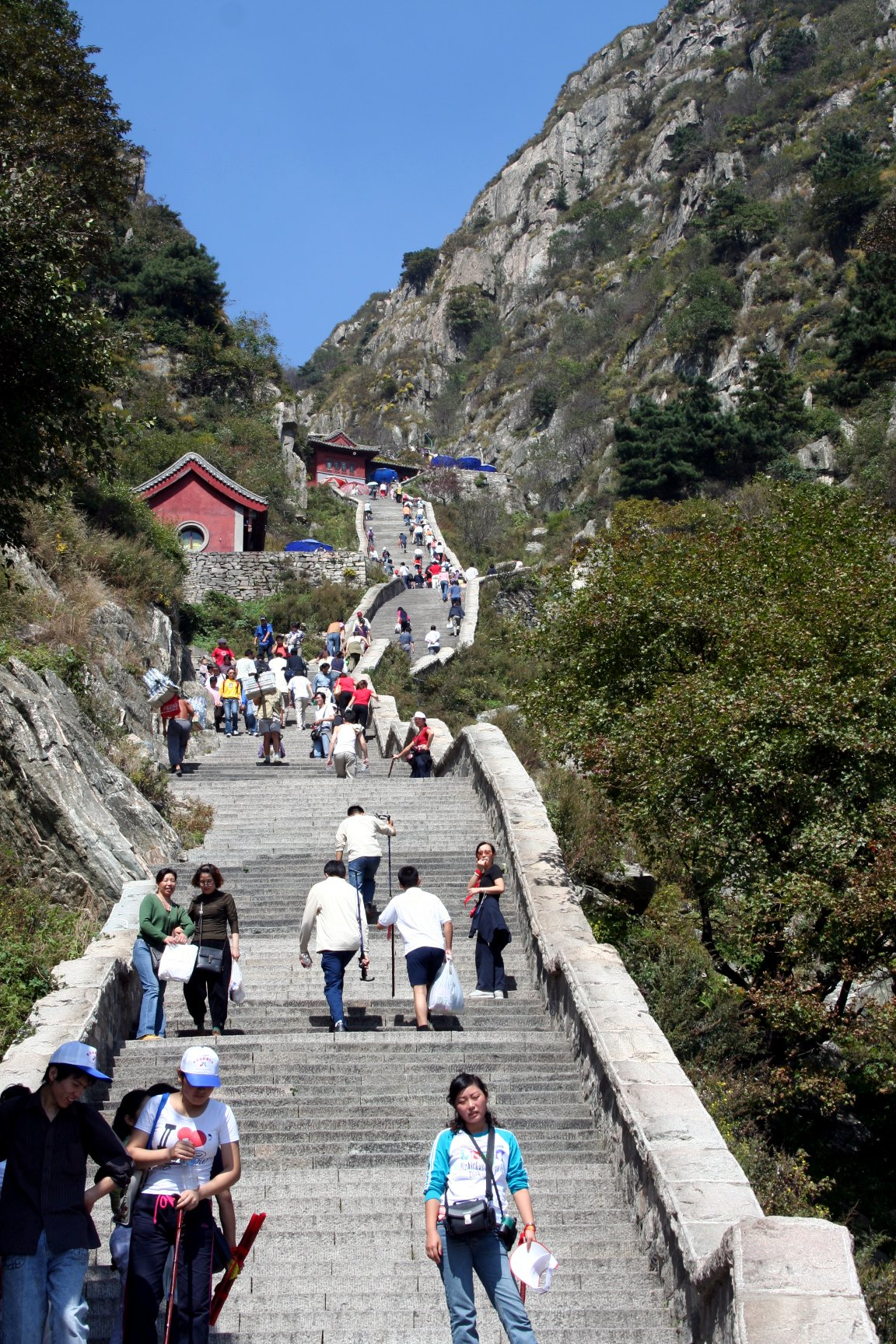 The main stone stairway leading up Mount Tai, Shandong Province, China